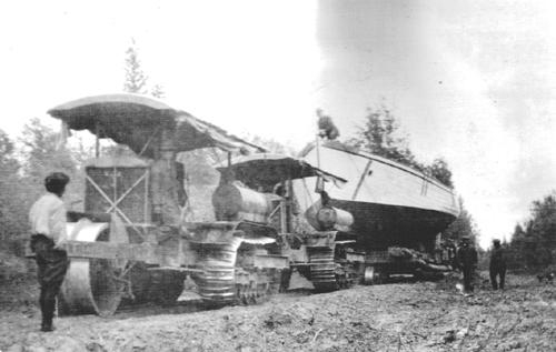 A tractor tows the HBC vessel Aklavik over the Fort Smith portage, in 1923. Original caption: "The Aklavik being towed by the Lamson Hubbard tractors at the portage on her way to the Arctic Ocean. (The figure on the deck of the Aklavik may be Scotty Gall.) (Image courtesy of the Brabant collection.)"